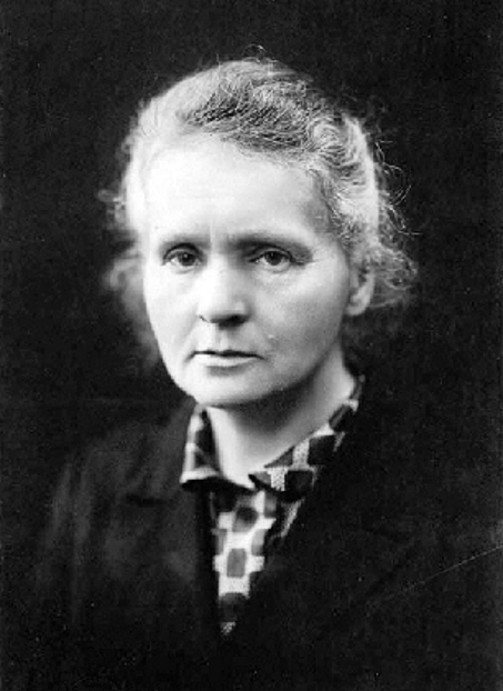 Depicted person: Marie Curie